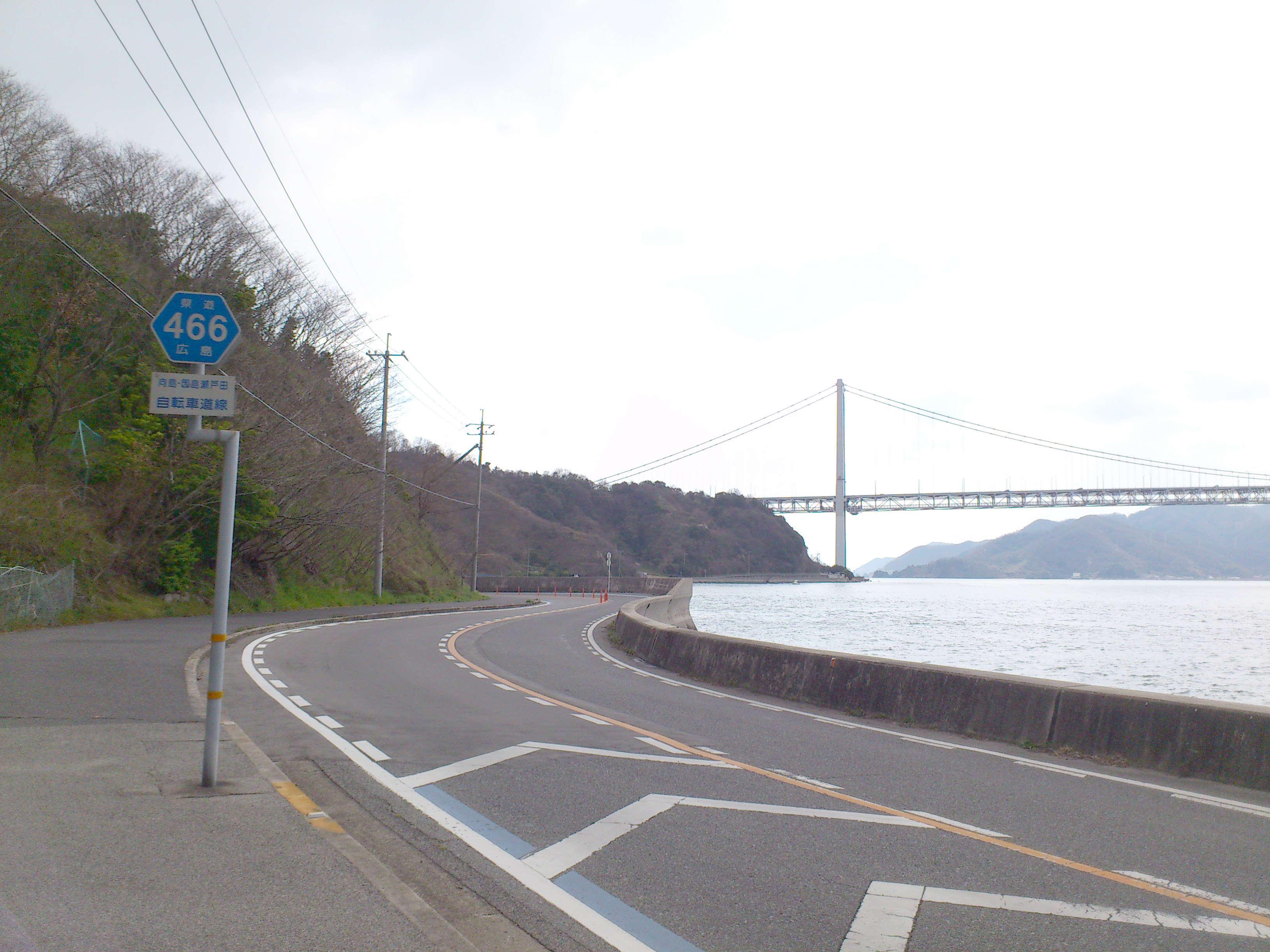 Hiroshima pref. Route 466 and Innoshima Bridge from Mukaishima